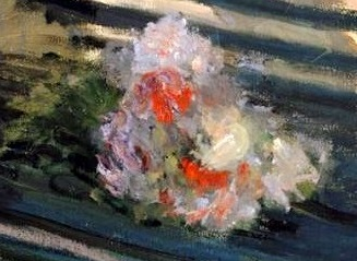 Boequet (detail_from_camille-monet-on-a-garden-bench)